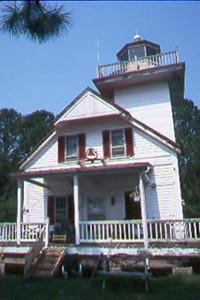 1996 National Park Service photograph of the Roanoke River Light (original here)